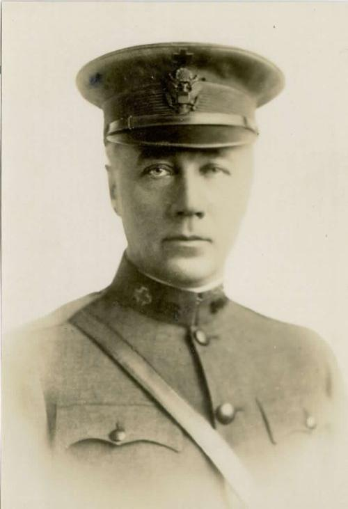 Francis (Franc) Jager (1869-1941), Slovenian priest and beekeeper